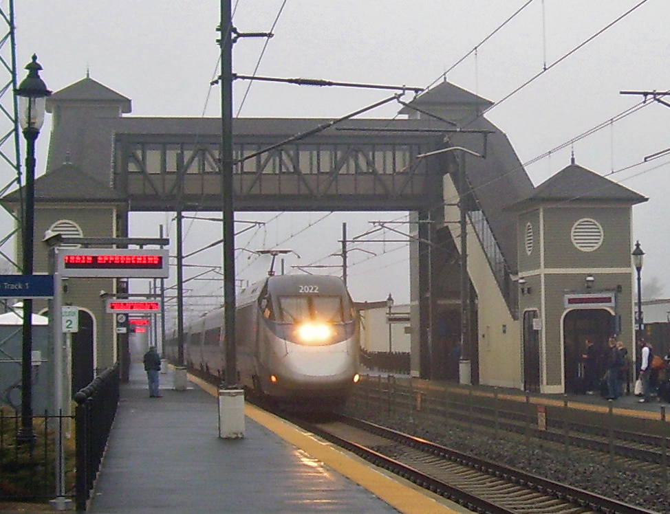 Amtrak Acela Express high-speed train passing through Kingston Station, RI, at 150 mph (240 km/h)